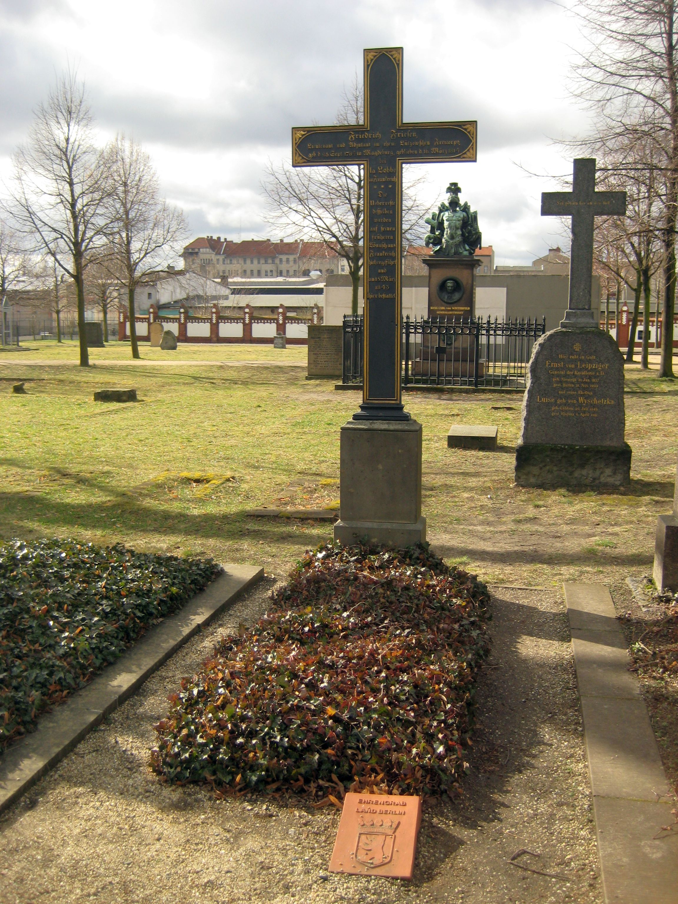 grave of Karl Friedrich Friesen (1784-1814) at Invalidenfriedhof cemetery in Berlin, erected in 1843